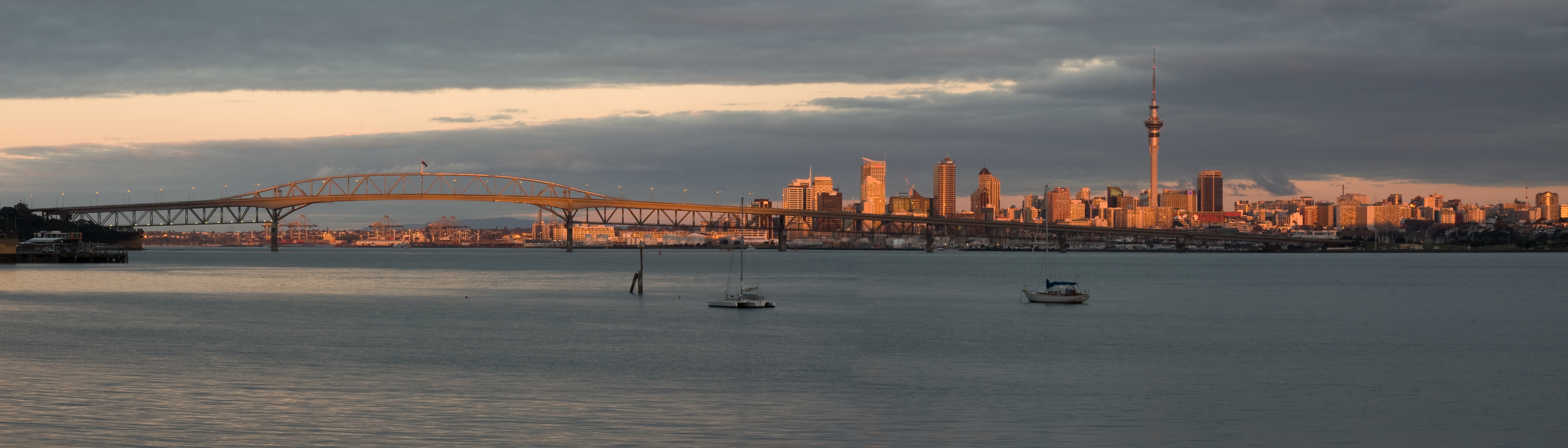 Panoramic image of a sunset over a city with buildings and a harbour bridge.